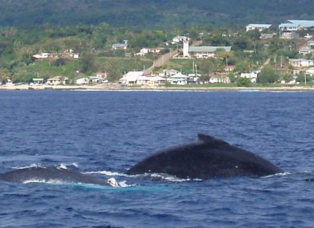 looking at ‘Ohonua, ‘Eua, southern Tonga, Pacific Ocean whales in the foreground